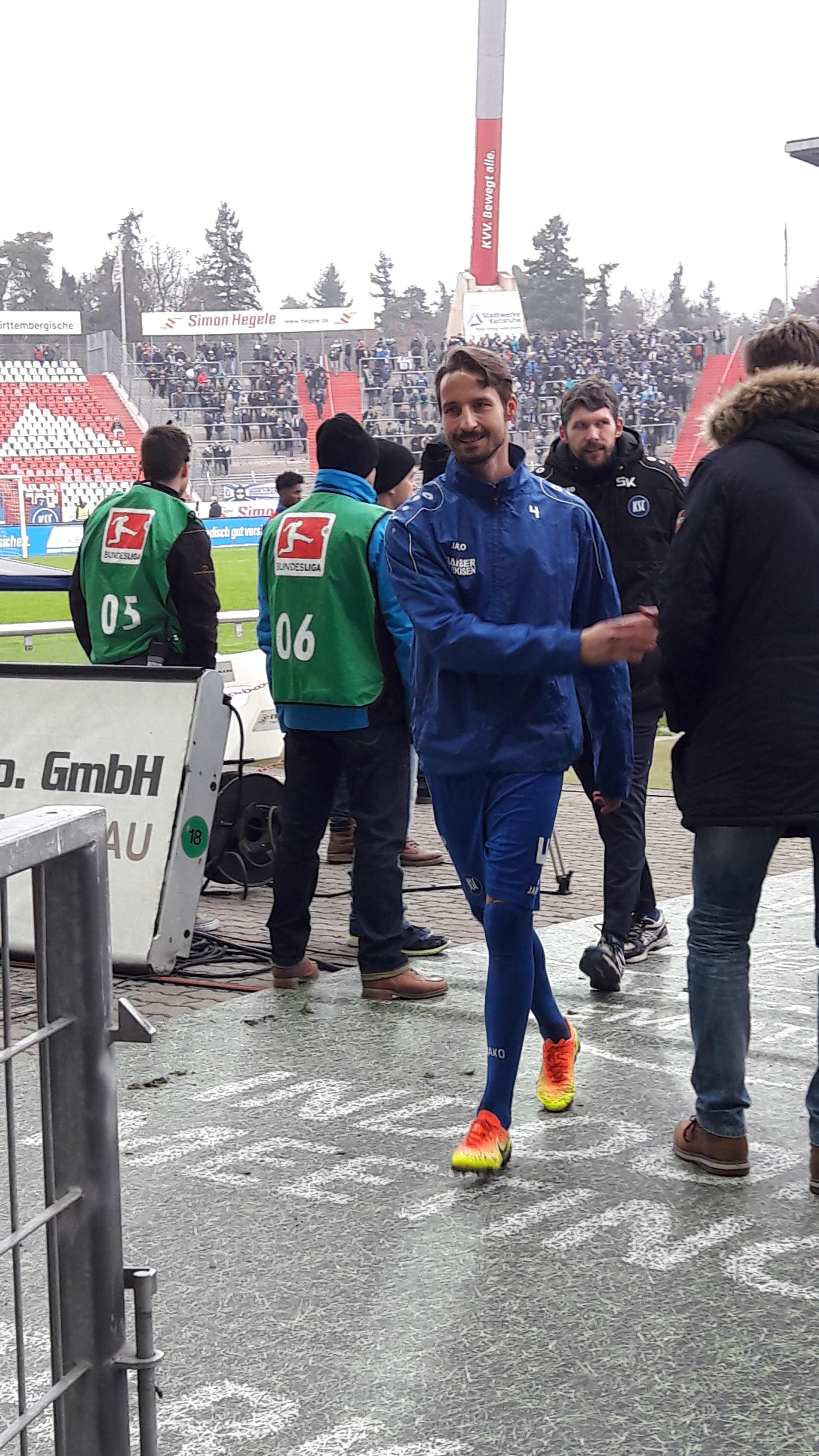 Footballplayer Martin Stoll before the match KSC - Eintracht Braunschweig at December, the 17th 2016